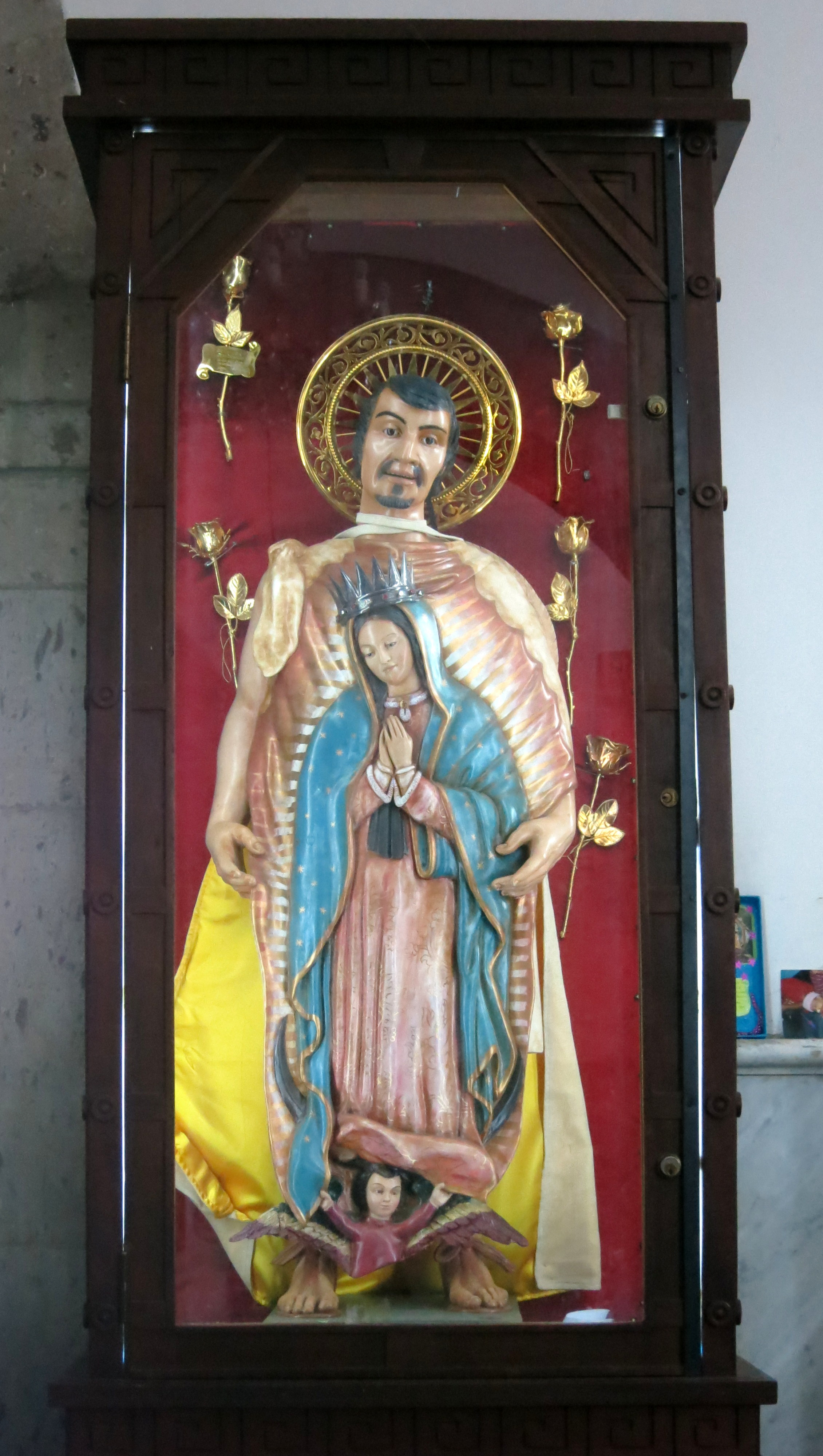 Basílica de Nuestra Señora de Zapopan (Jalisco, Mexico) - statue, St. Juan Diego